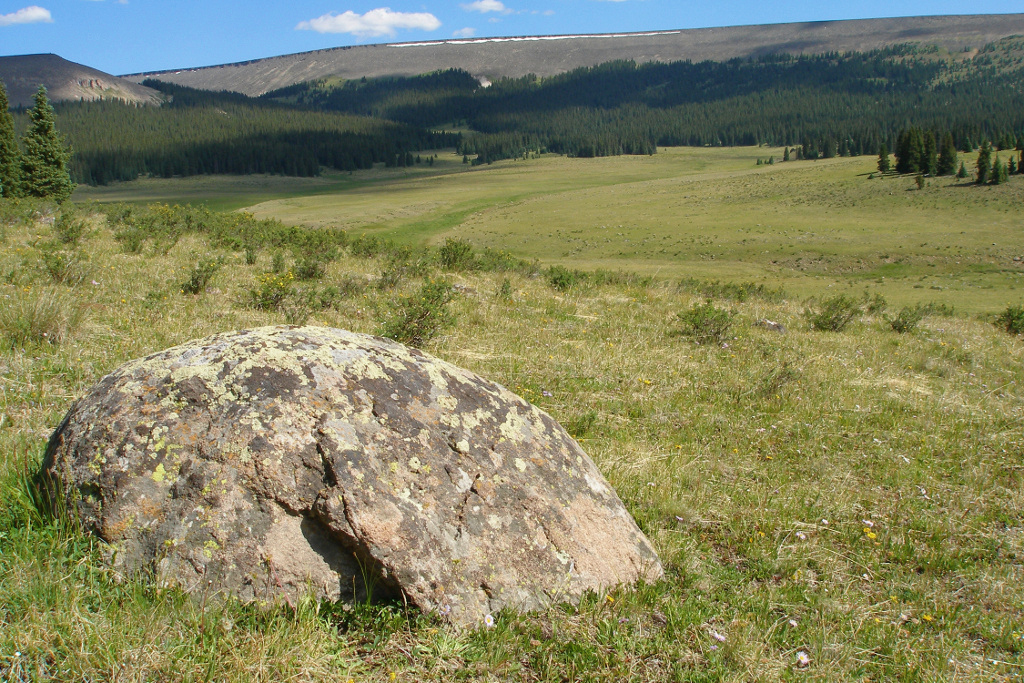 La Garita Wilderness in the La Garita Mountains, Colorado, USA, meadow along the East Bellows trail to Wheeler Geologic Area